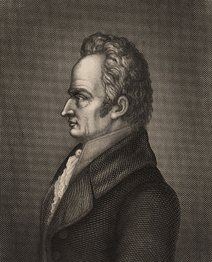 Engraving of Marc Isambart Brunel by G. Metzeroth, ca. 1880